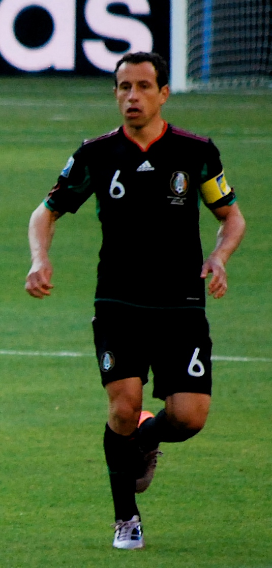 Gerardo Torrado at the match of Mexico VS South Africa in Soccer City, Johannesburg